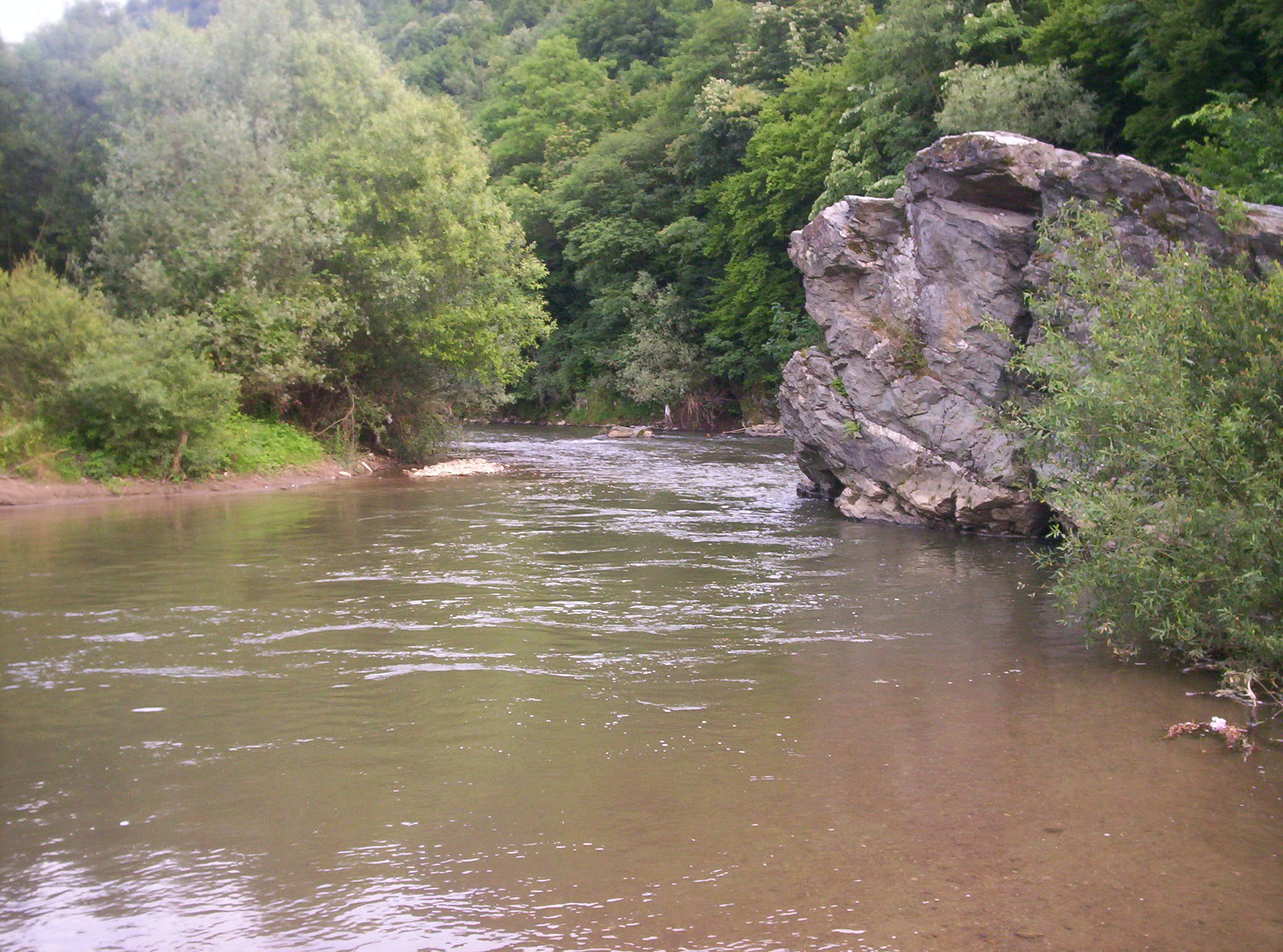 River Vlasina, location: Pukli kamen, near Vlasotince, southeast Serbia